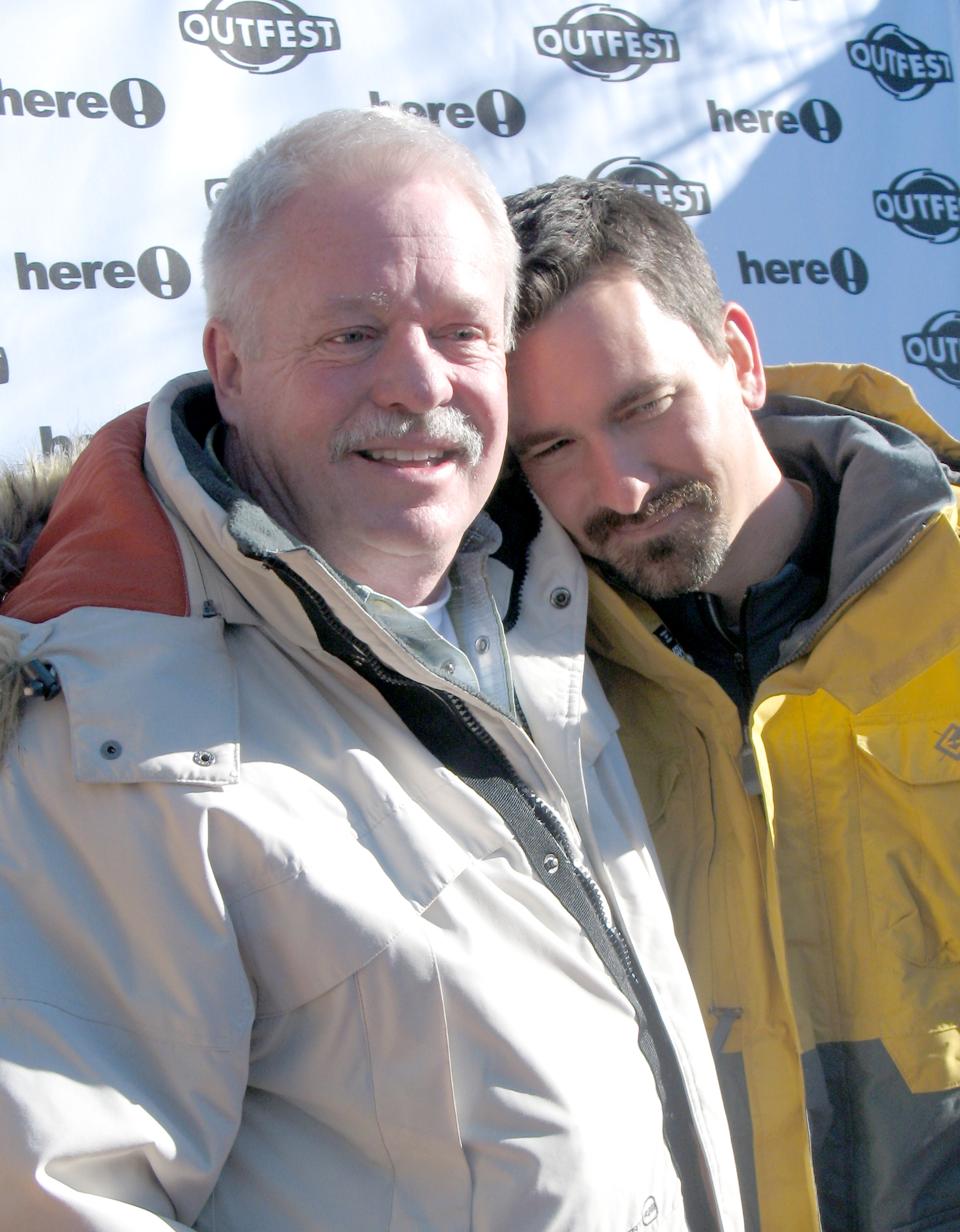 Author Armistead Maupin (Tales of the City, The Night Listener) and his husband Christopher Turner at the Here! Network/Outfest Queer Brunch during the 2006 Sundance Film Festival